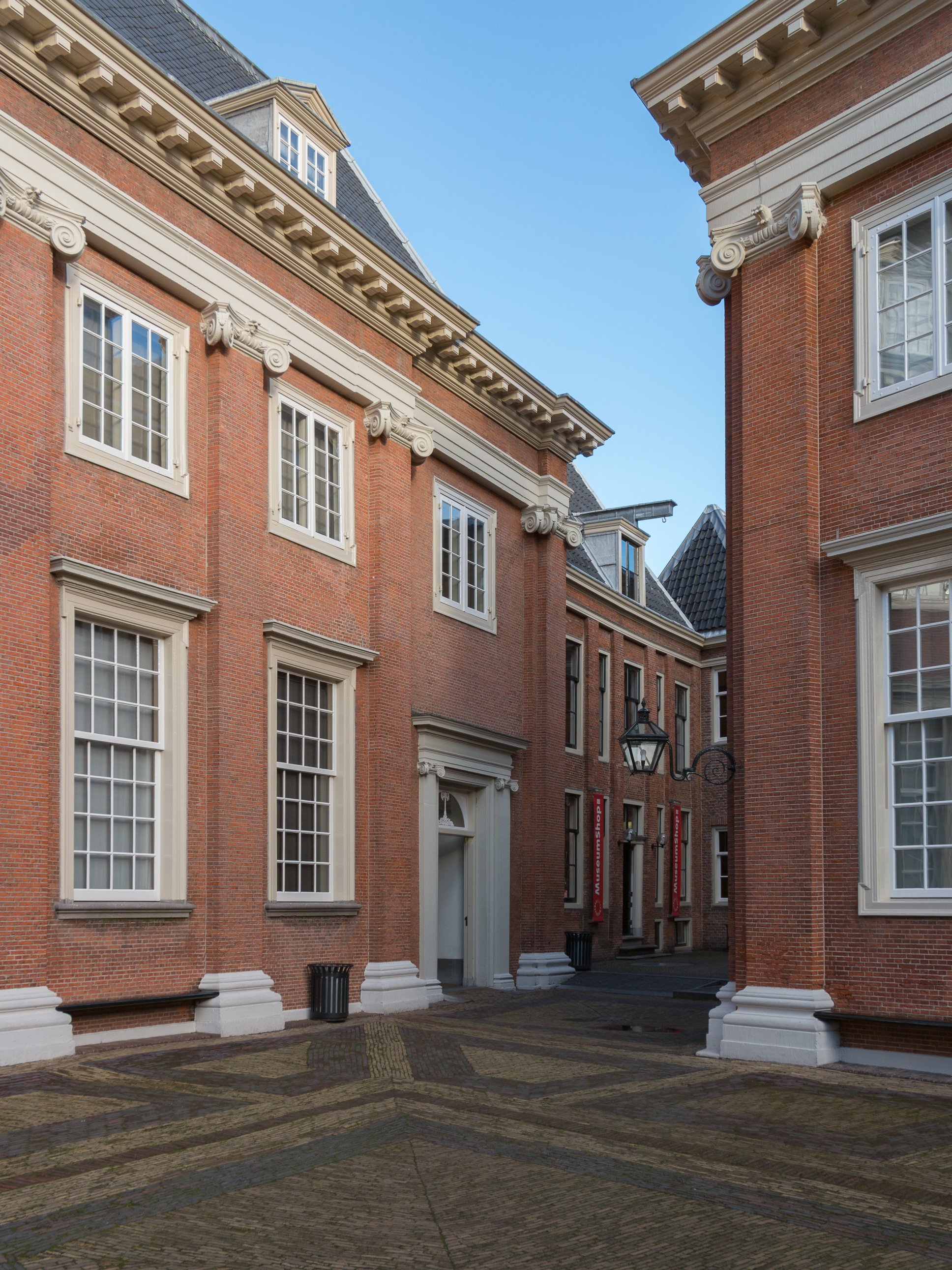 Courtyards of the Amsterdam Museum